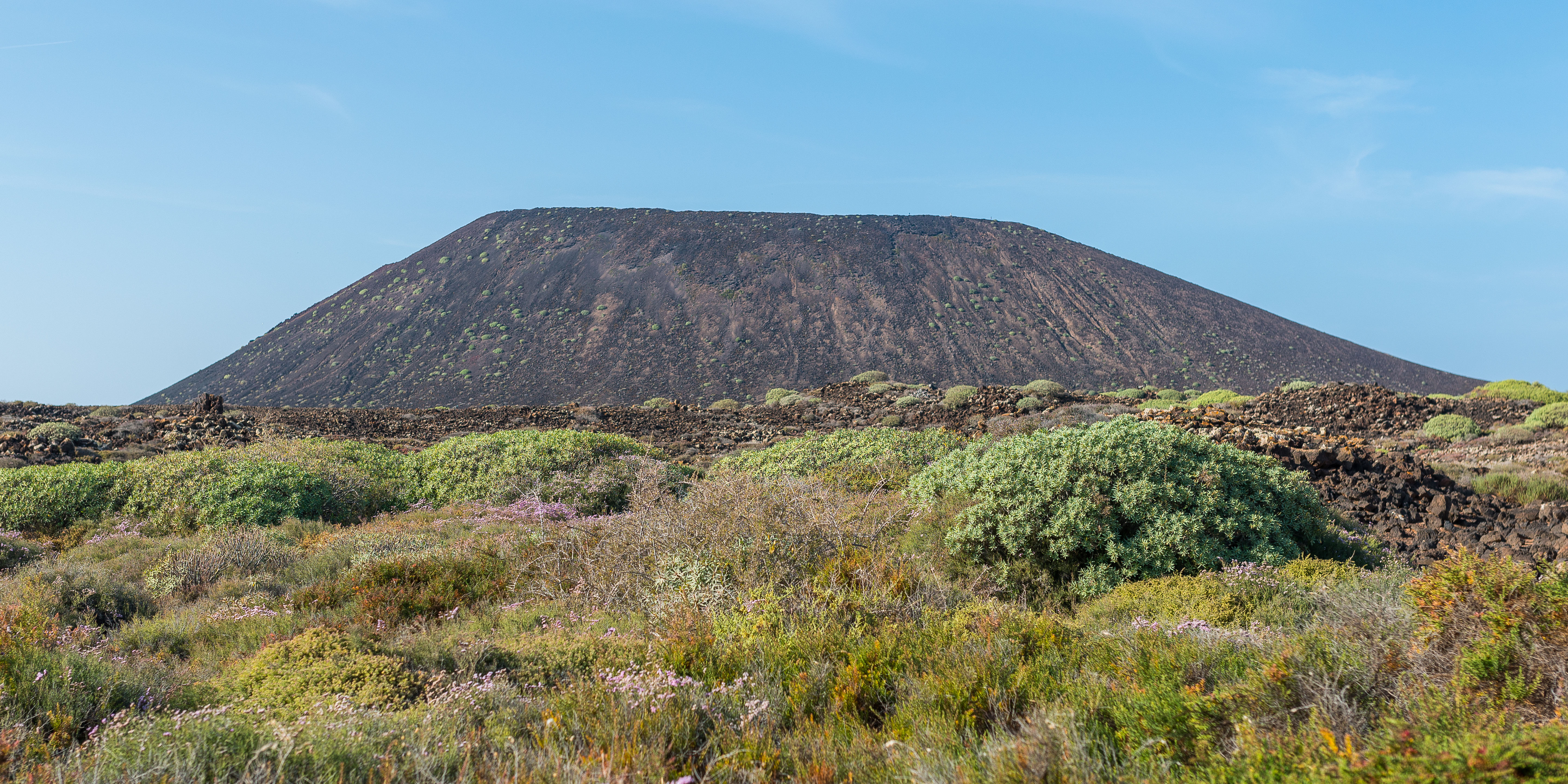 Isla de Lobos Spain February 2016